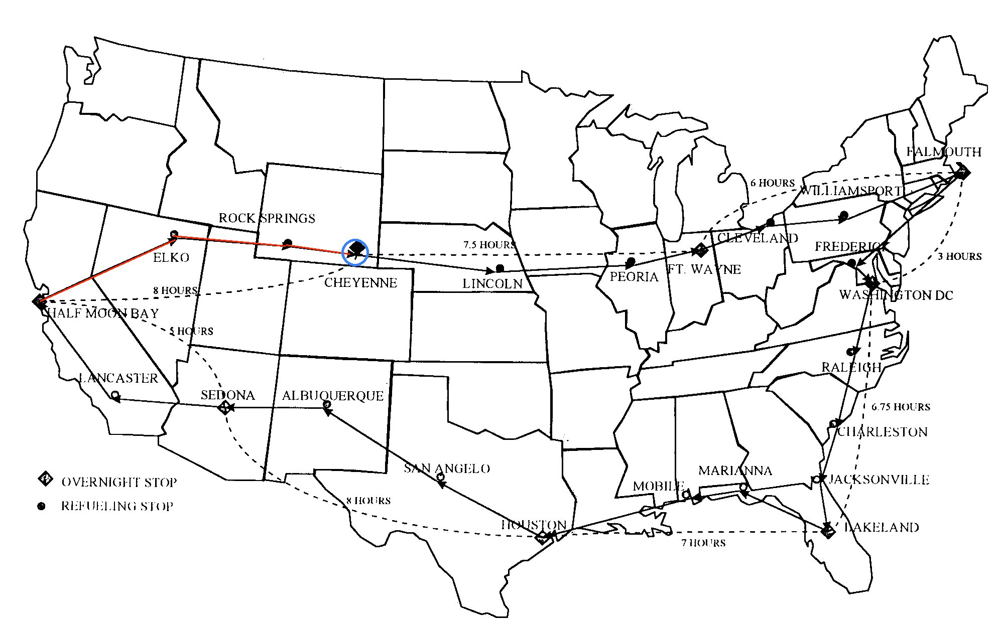 Map showing planned route of Jessica Dubroff's "Sea to Shining Sea" trip